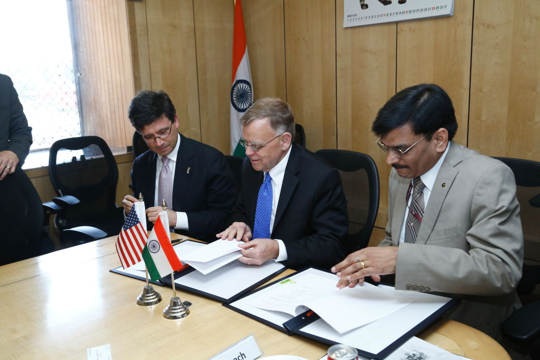 FDA's Howard Sklamberg (left) & Mike Taylor (center) with India's EIC Director Dr. SK Saxena signing MOU pledging cooperation on food safety. To learn more, read the FDA Voice blog. This photo is free of all copyright restrictions and available for use and redistribution without permission. Credit to the U.S. Food and Drug Administration is appreciated but not required. For more privacy and use information visit